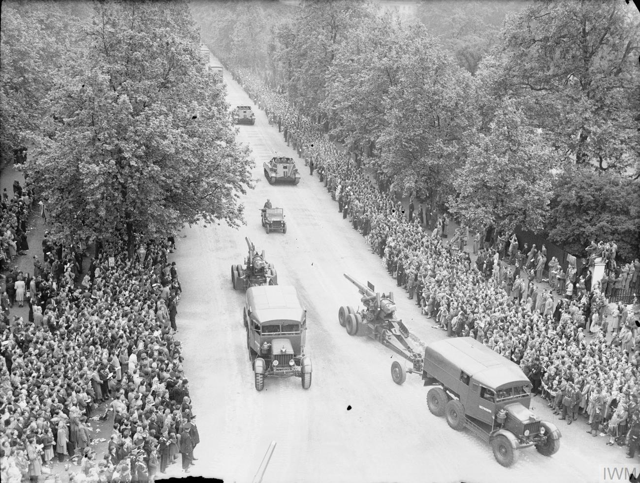 The Royal Artillery contingent in the Victory Parade in London on 8 June 1946. Two towed 7.2 inch howitzers lead four Archer self-propelled guns.